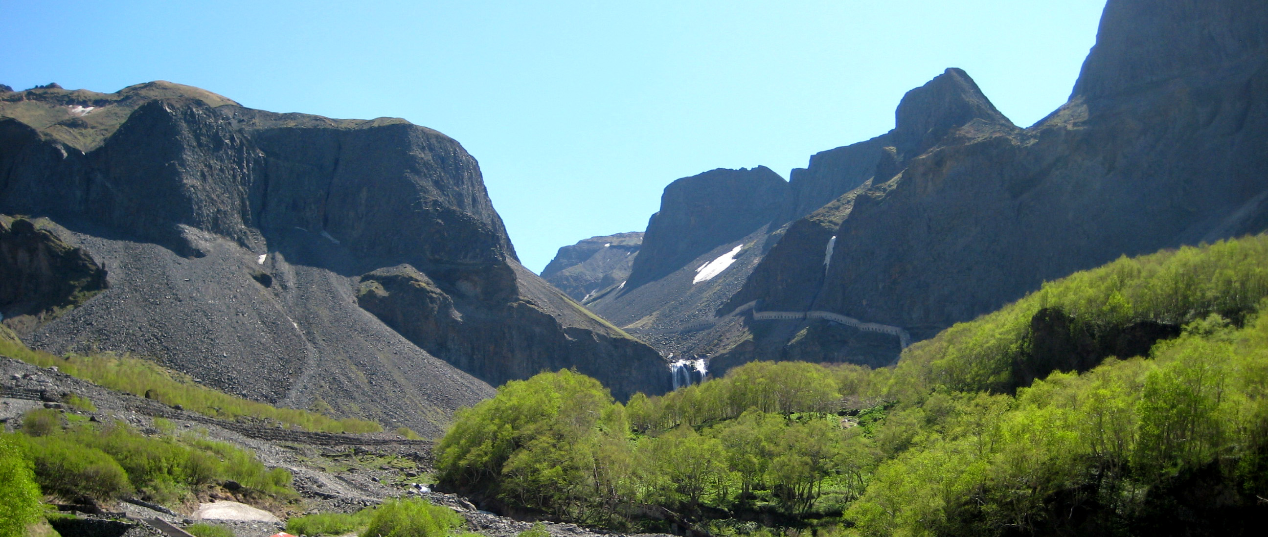 North slope of Changbai Shan, Jilin province, China